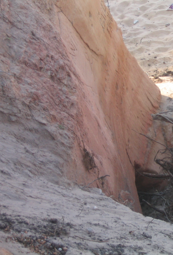 Red sandstone rocks at Veczemji, Latvia